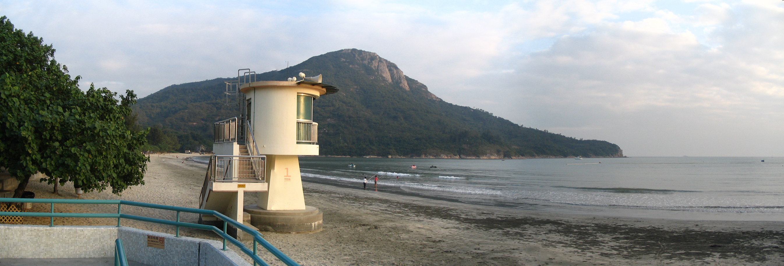 Panoramic photo of Pui O, combined from 2040332768, 2039537707, 2040333606 and 2040333606